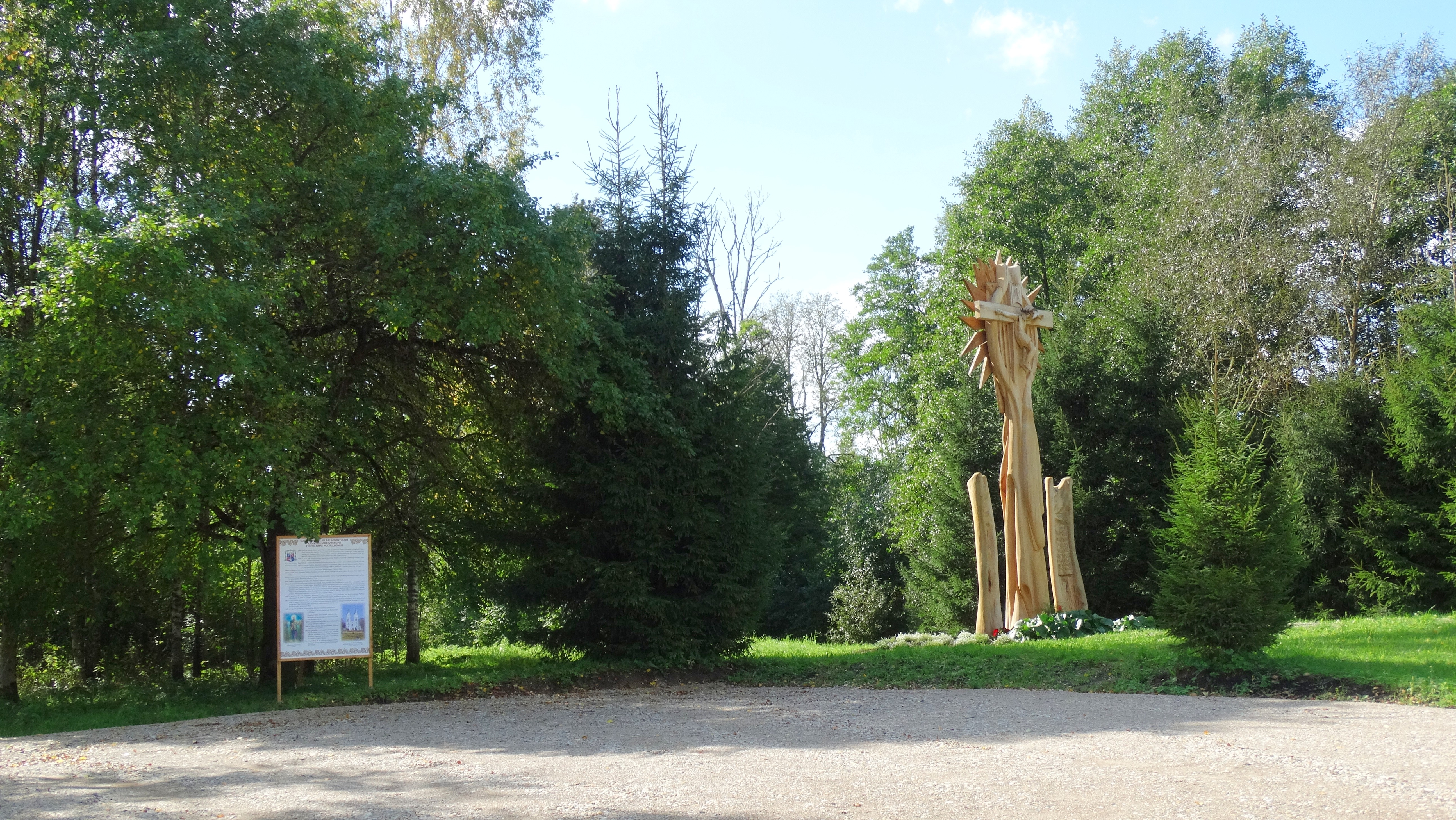 Cross (erected in 2017) in archbishop T. Matulionis' native village Kudoriškis, Anykščiai District, Lithuania